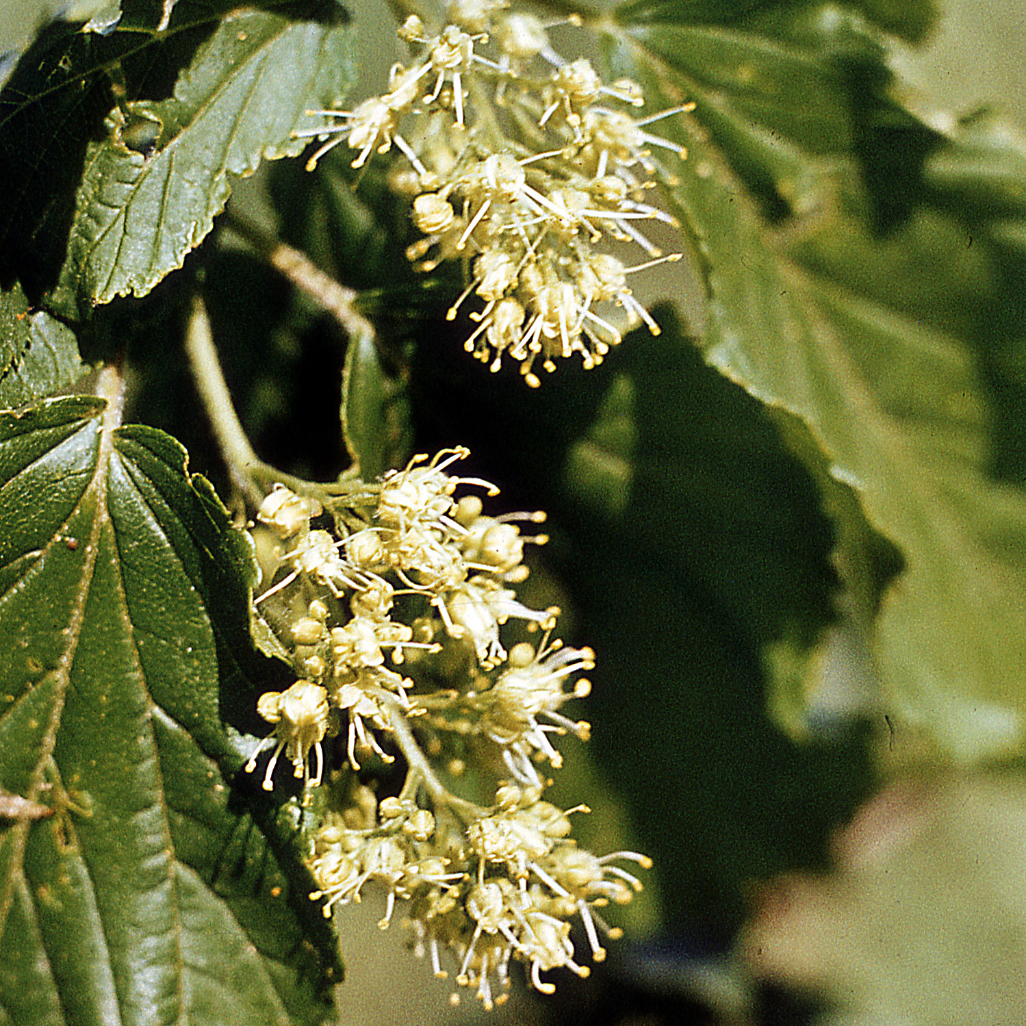 Acer tataricum inflorescence